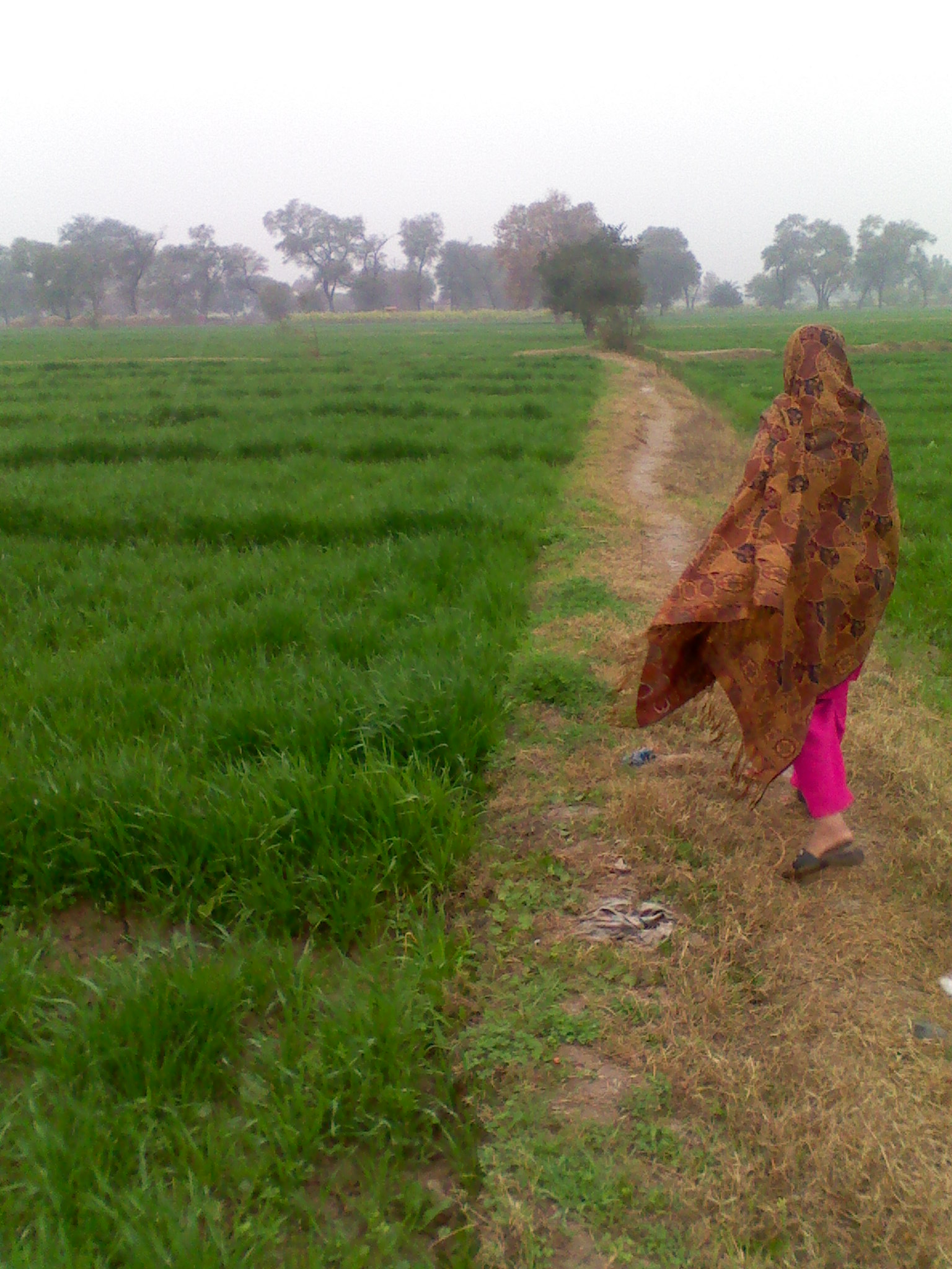 This picture shows a beautiful view of village Burzi